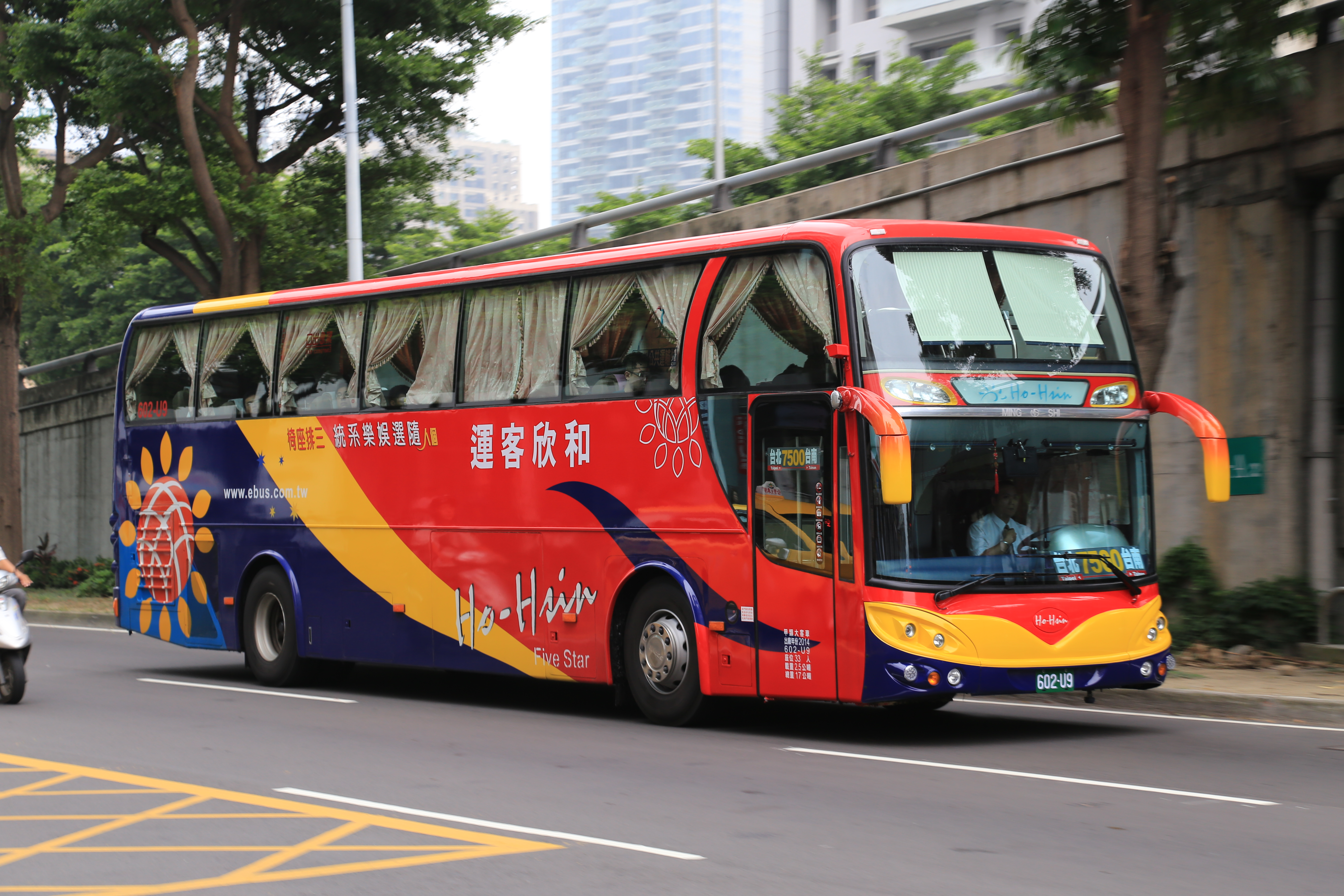 HoHsinBus SCANIA K400IB4X2NB